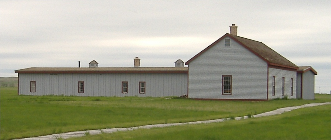 Reconstructed (2004) adobe barracks and its attached kitchen and mess hall at Fort Buford looking as the original did at the same location from 1874 to 1881 when the original was torn down. The parade ground was on the other (East) side.